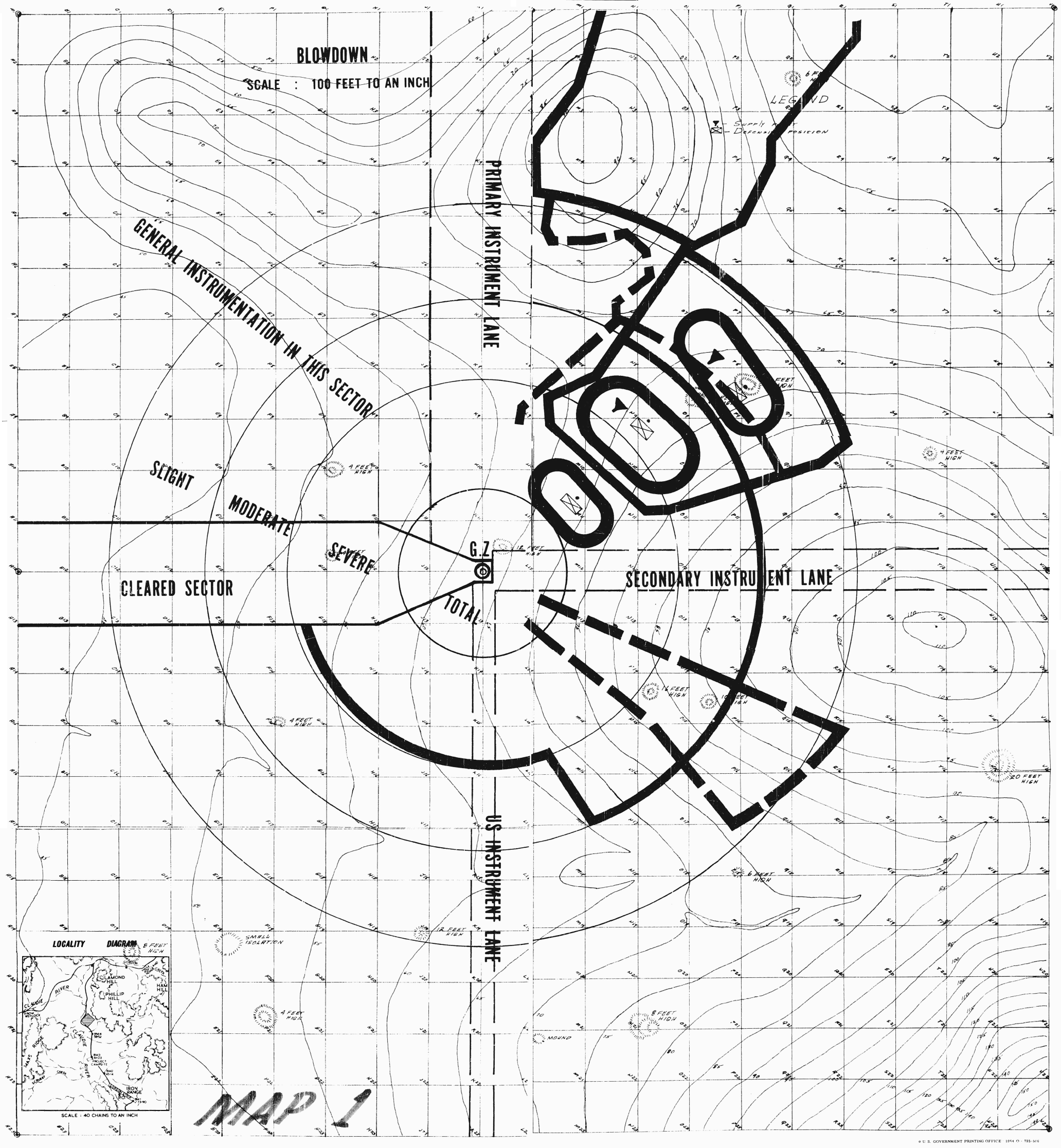 Plan map of Operation Blowdown. The map shows destruction areas around ground zero, instrumentation lanes, cleared sectors and test material placement